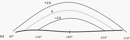 A diagram demonstrating the varying declination of the sun during the year, marking the azimuths in °N where the sun rises and sets at summer and winter solstices at a place of 56°N latitude.